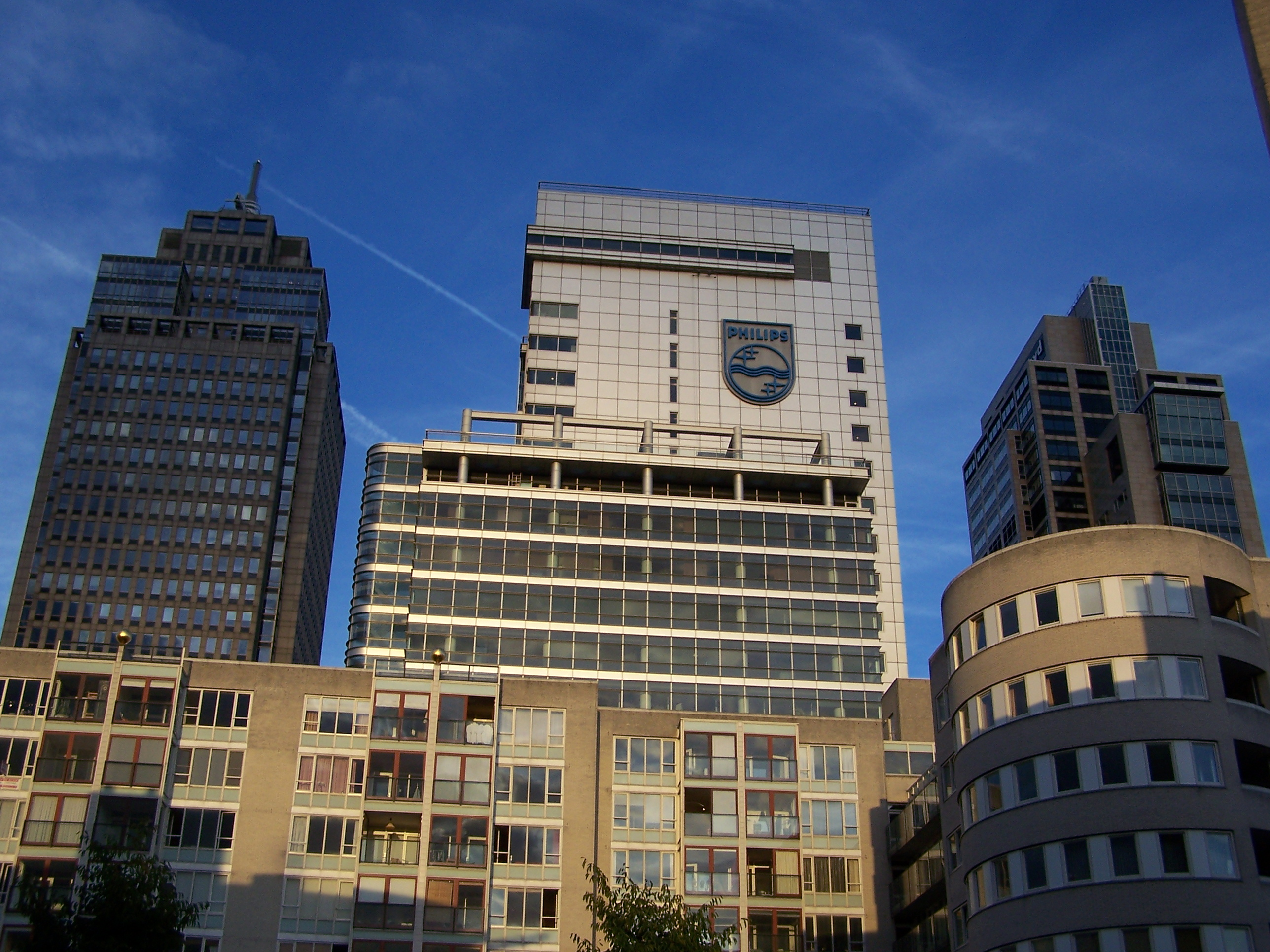 Headquarters of Philips in Amsterdam, The Netherlands. author: Mig de Jong